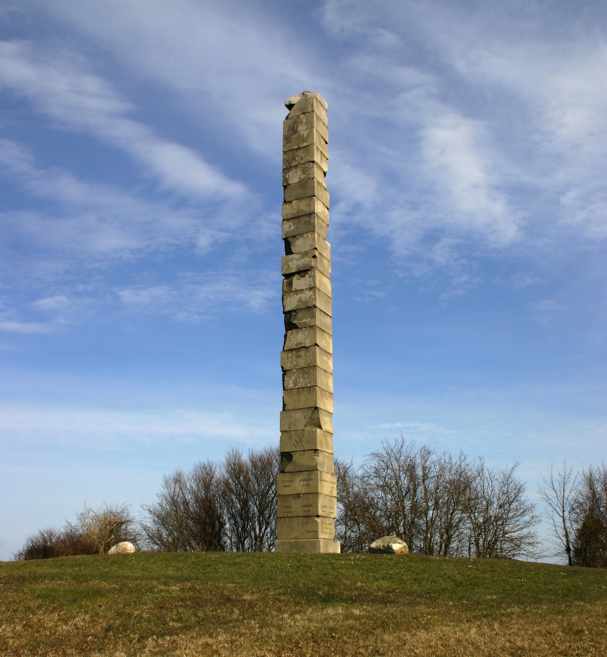 In memory of 18 people.They all worked hard for the danish cummunity. Placed at the highest spot in the region.It consists of 25 stones and are 16 m high.Established 1863.